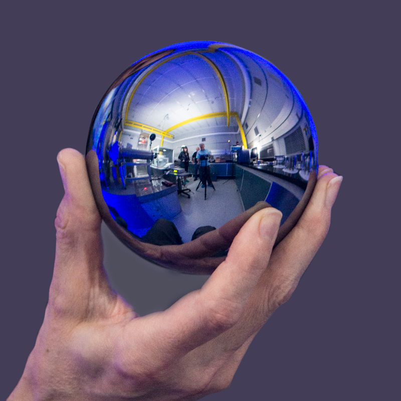 Silicon sphere, similar to those used in the Avogadro project. The sphere, which has a diameter of about 93.6 mm, was cut from a single crystal of 99.9995% pure silicon-28 has a mass of 1 kg.